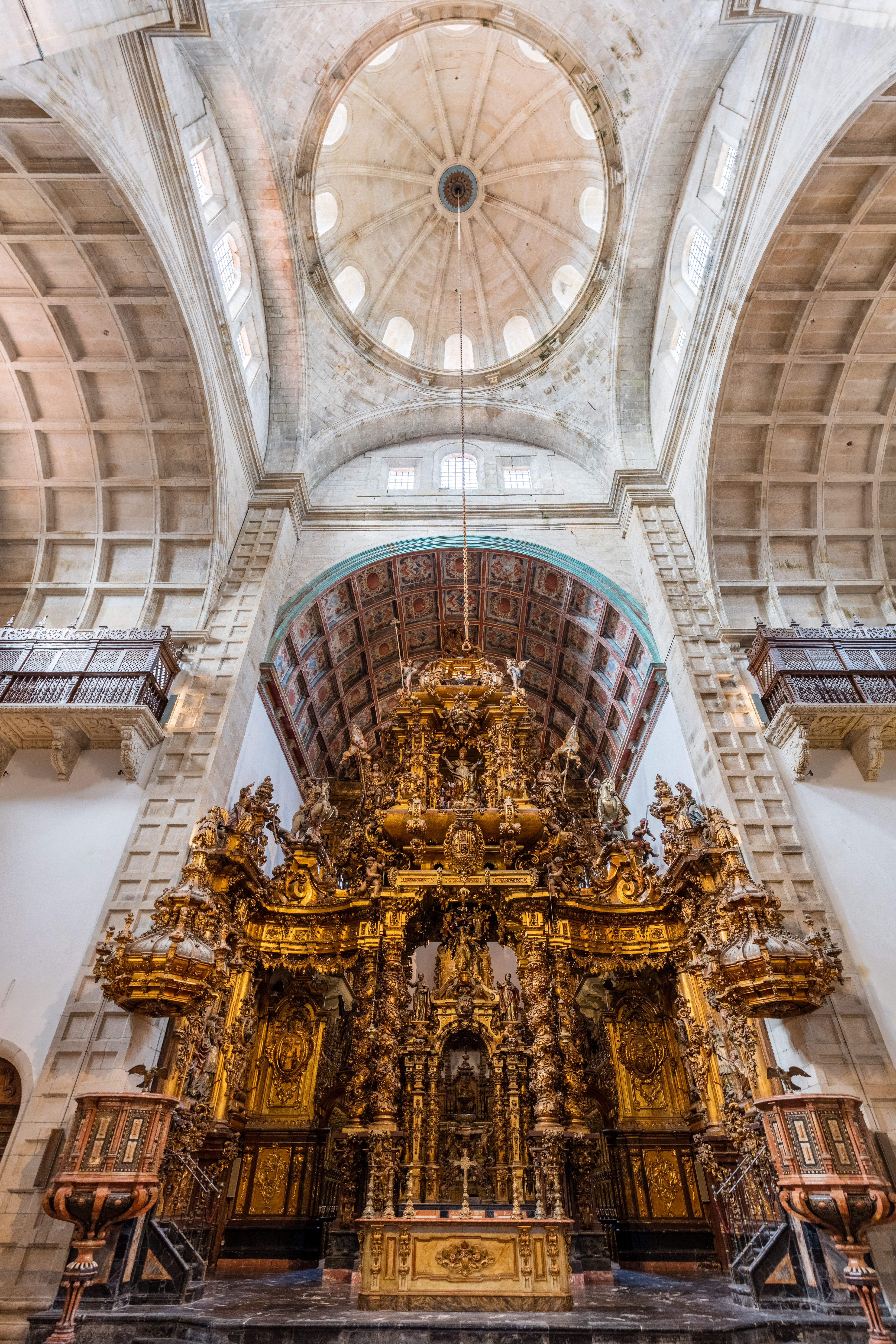 San Martin Monastery, Santiago de Compostela, Spain